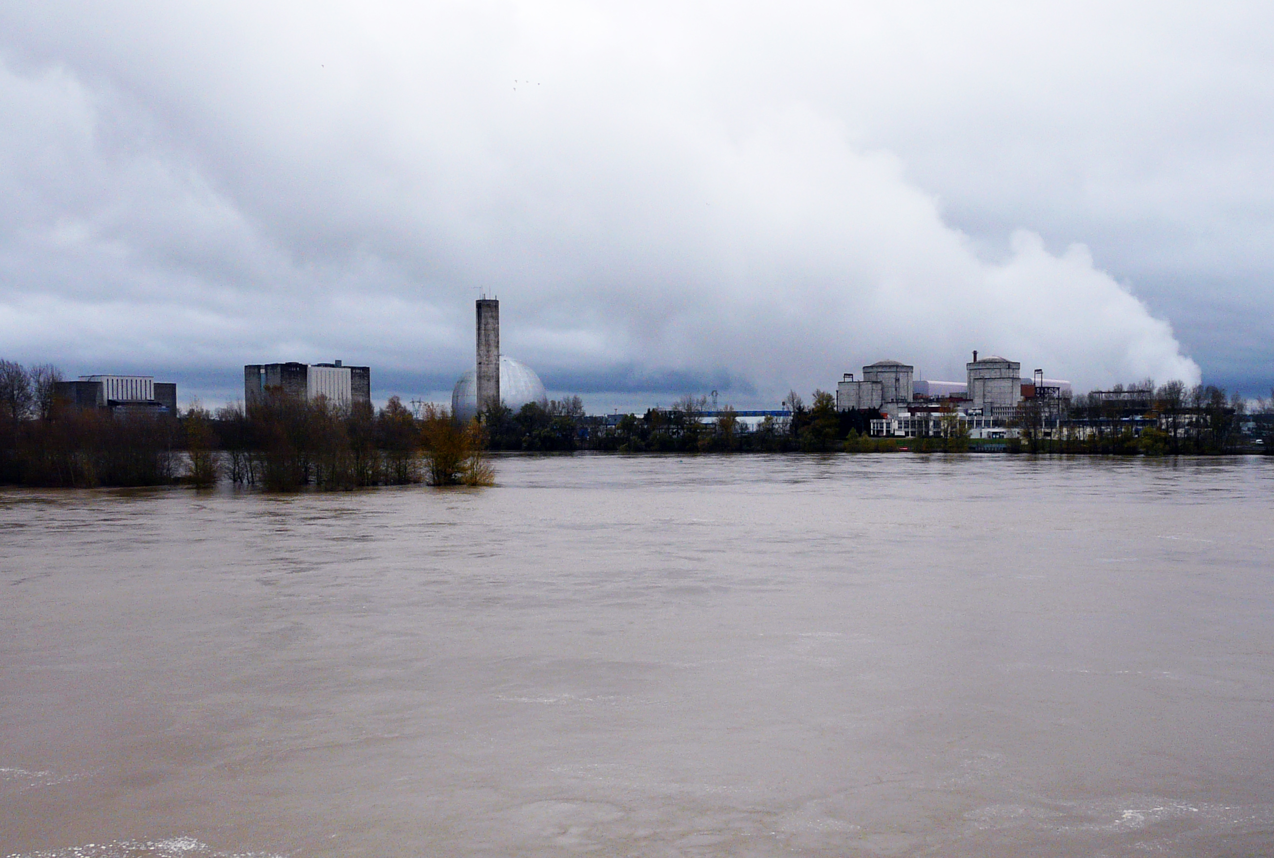 The nuclear power plant of Chinon (France) taken from the opposite side of the Loire river.